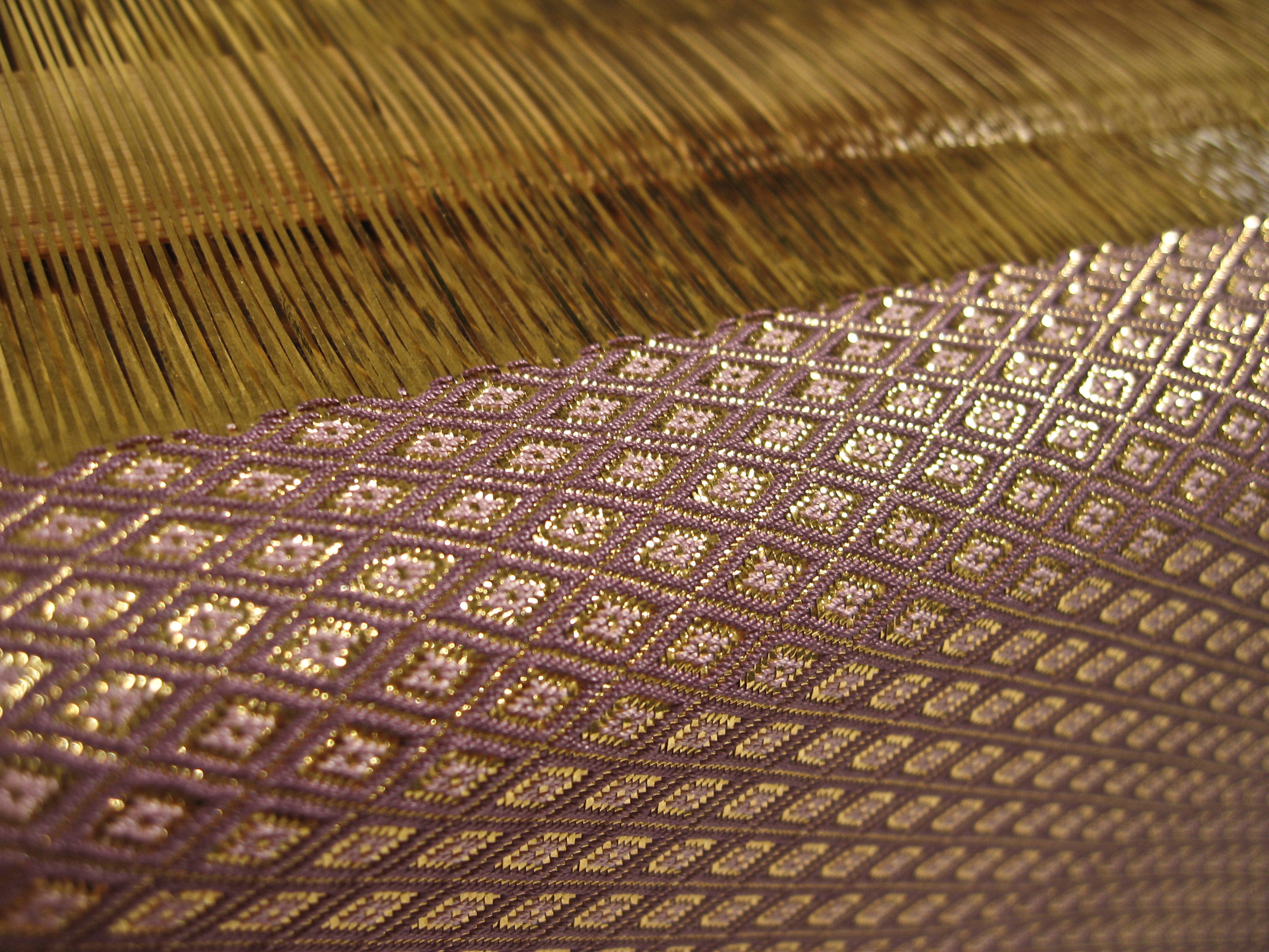 A Saga Nishiki brocade